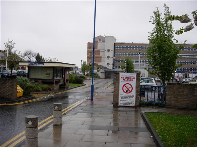 Main Entrance to Sunderland Royal Hospital. No smoking allowed anywhere in the hospital grounds!